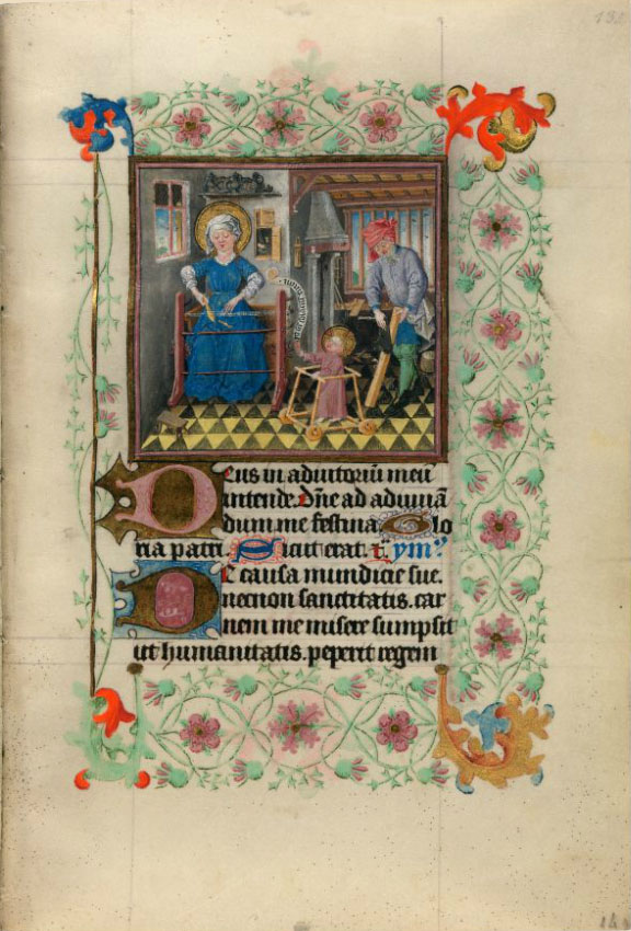 Getijdenboek van Katharina van Kleef, Morgan Library M.917 p.161, De heilige familie aan het werk